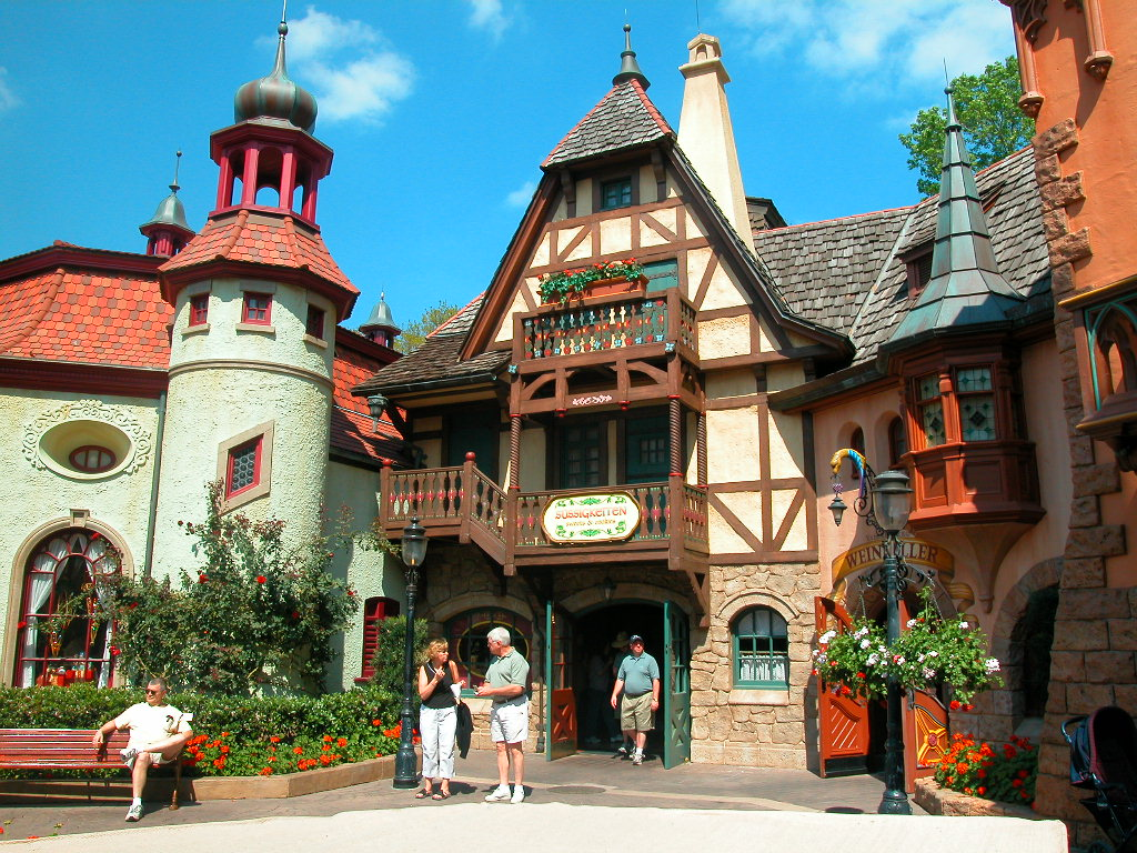 Germany pavillon at EPCOT Center